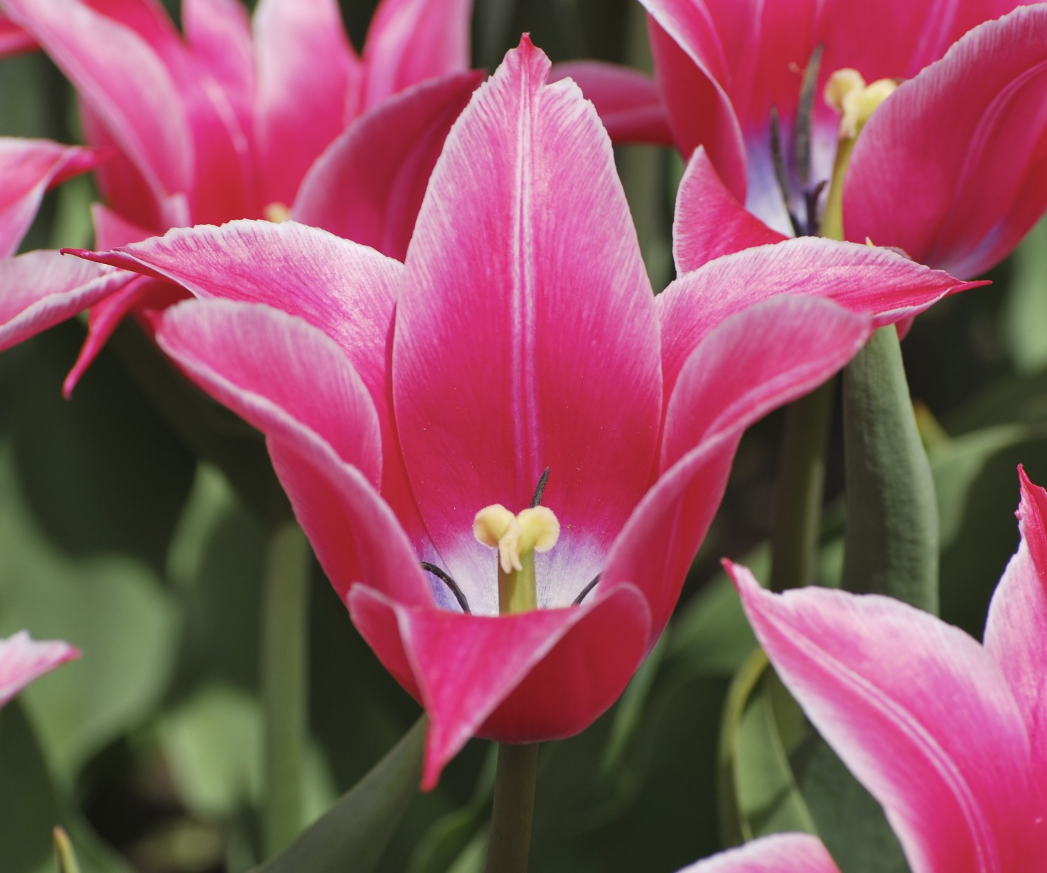 A Yonina cultivar (Division 6) tulip at the Tulip Fest in Albany, New York, United States.